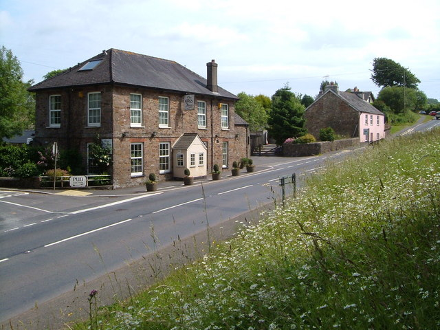 The Old Inn, Halwell. This fine unpretentious building on the busy A381 Totnes-Kingsbridge road dates from 1874, replacing an earlier building that burnt down.